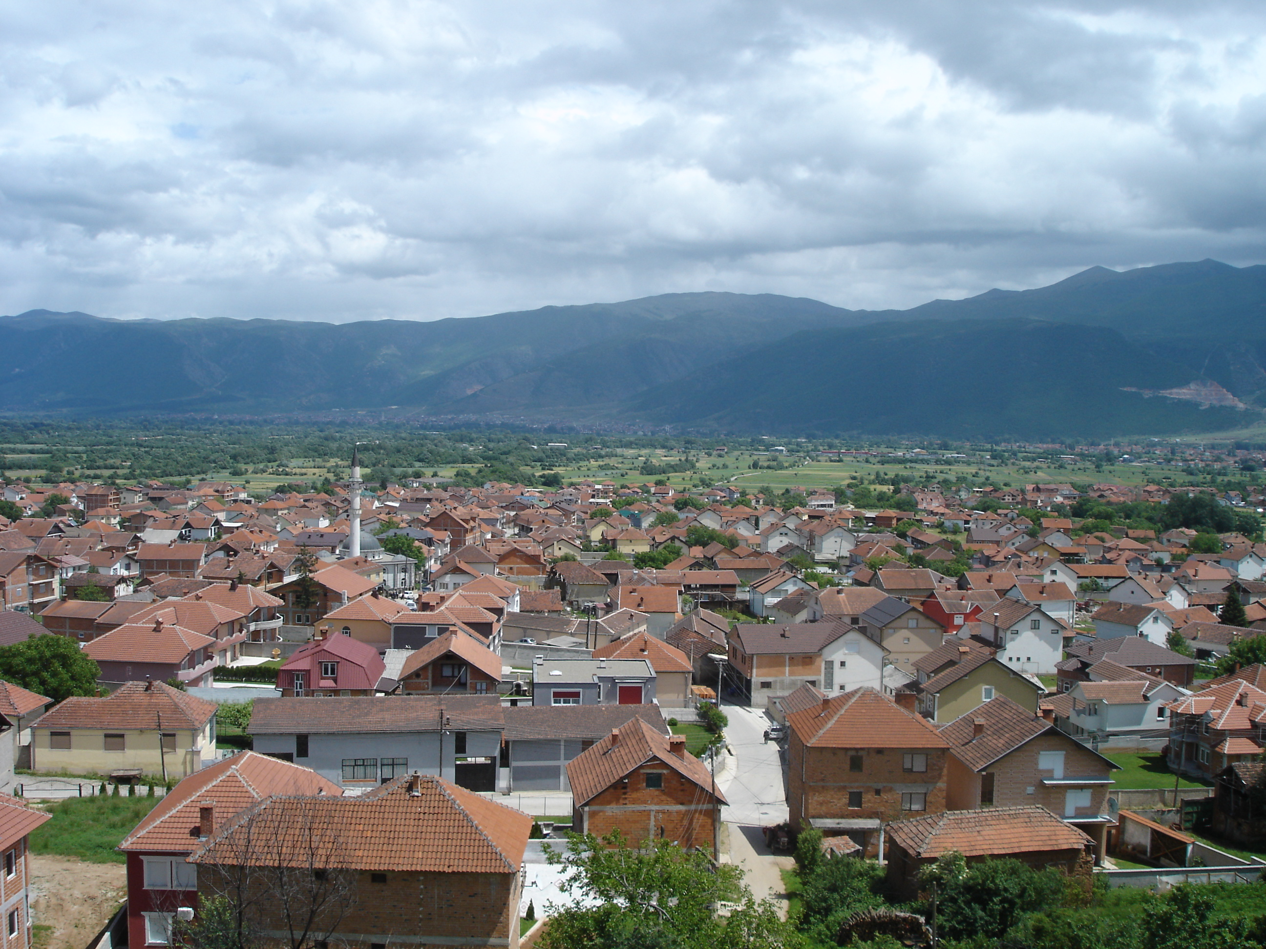 village of Debreshe, near Gostivar, Macedonia